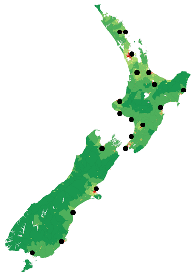 This map shows the distribution of the New Zealand population, and the location of Coast stations, to illustrate the Coast (New Zealand).